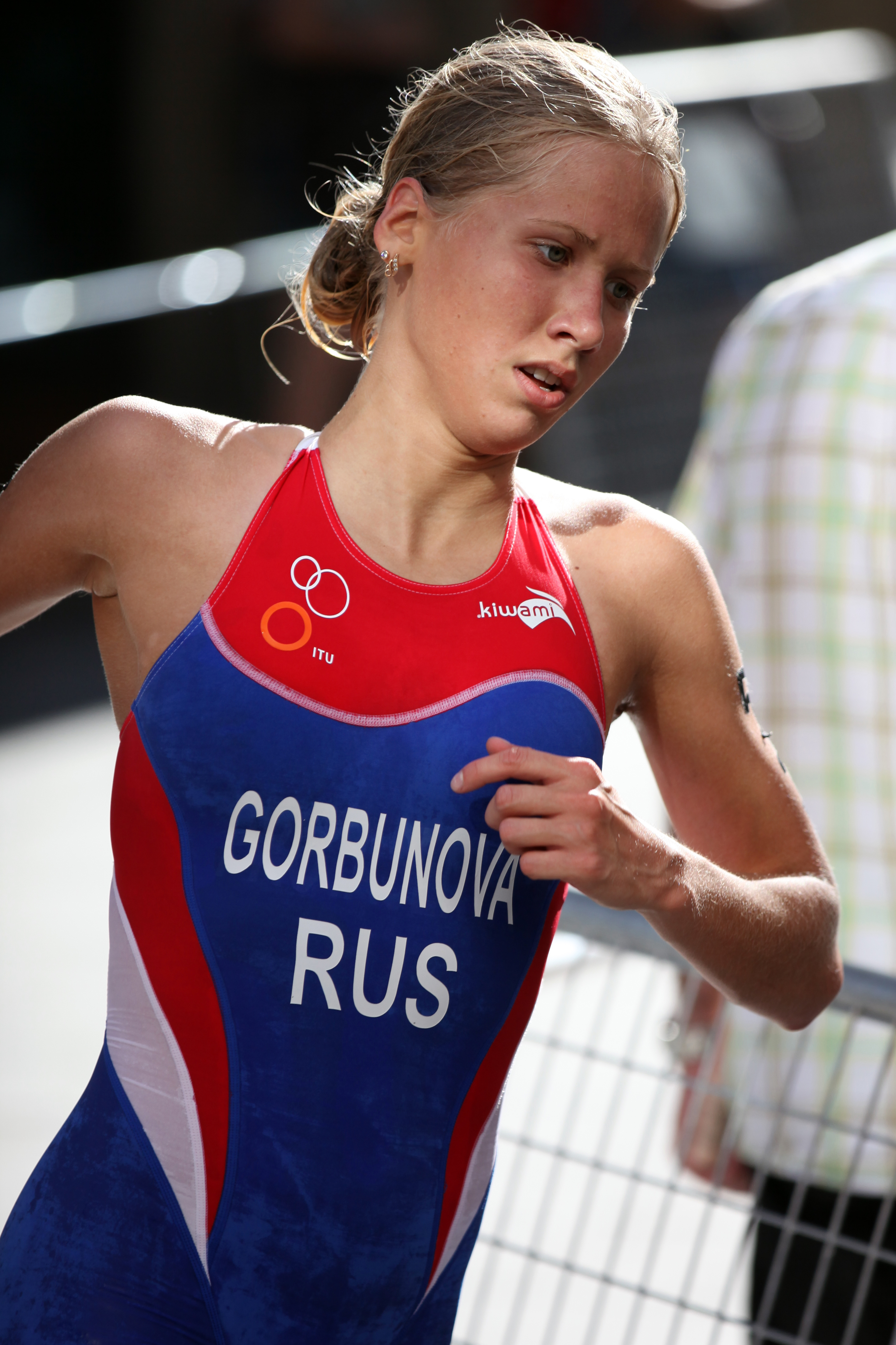 Anastasiya Gorbunova (Анастасия Олеговна Горбунова) at the Triathlon European Championships in Pontevedra.